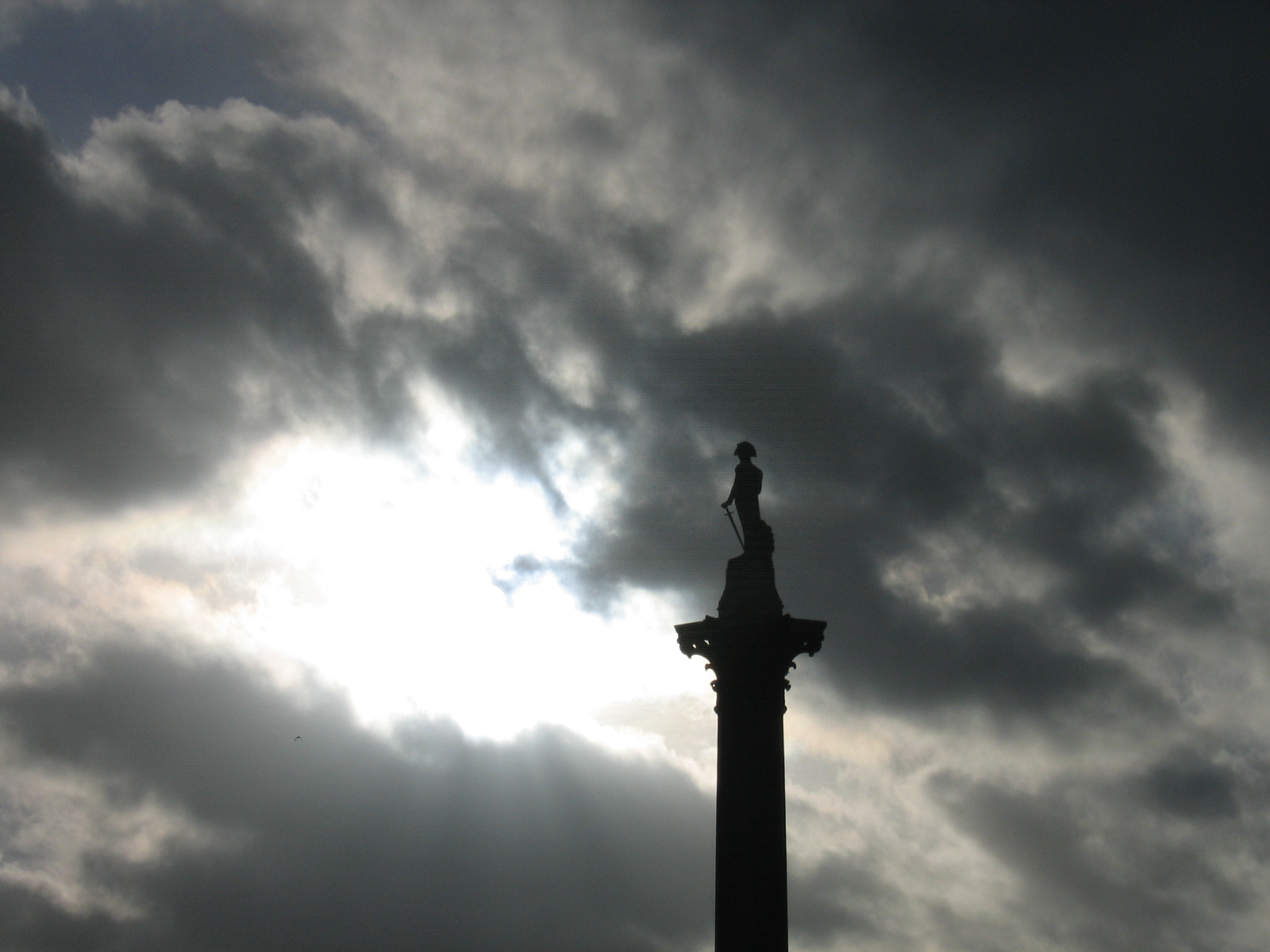 Nelson's Column (Horatio Nelson in the clouds. Taken from Trafalgar Square.